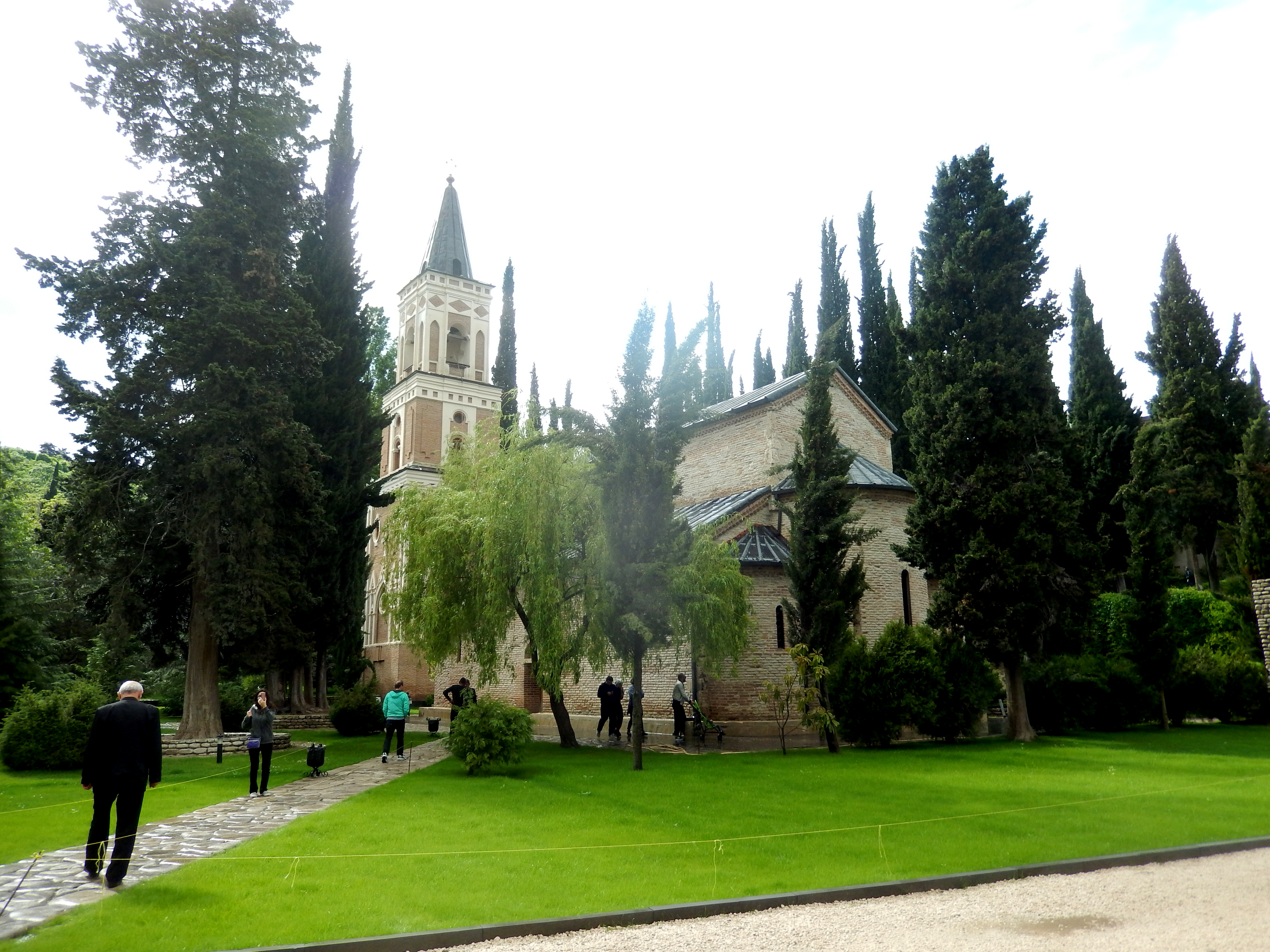 Bodbe Monastery, Sighnaghi